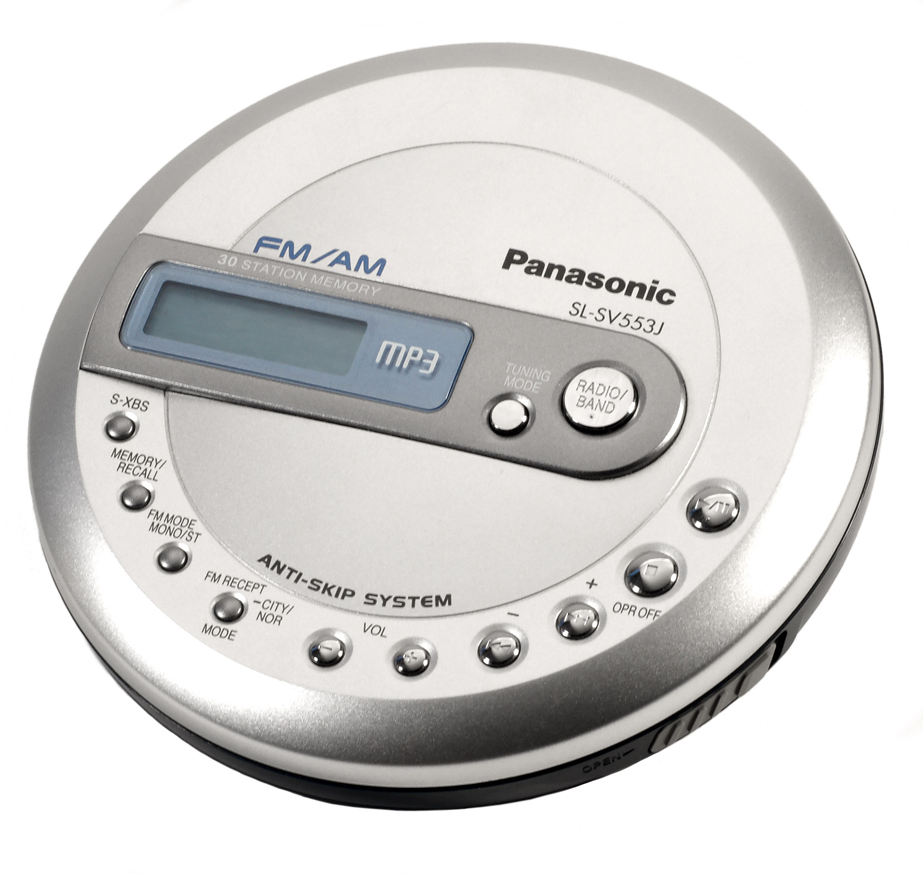 A Panasonic SL-SV553J portable CD player, with radio and MP3 capabilities.